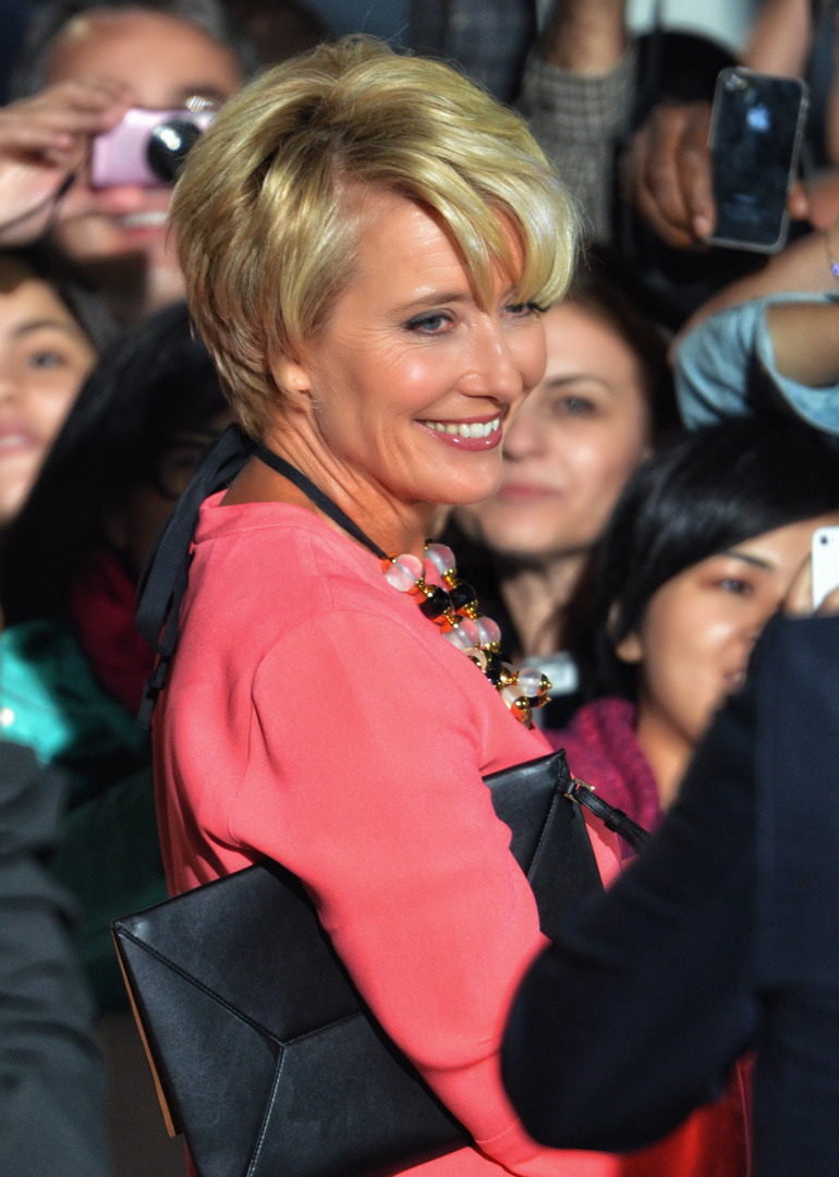 Emma Thompson at the premiere of The Love Punch at the 2013 Toronto International Film Festival.